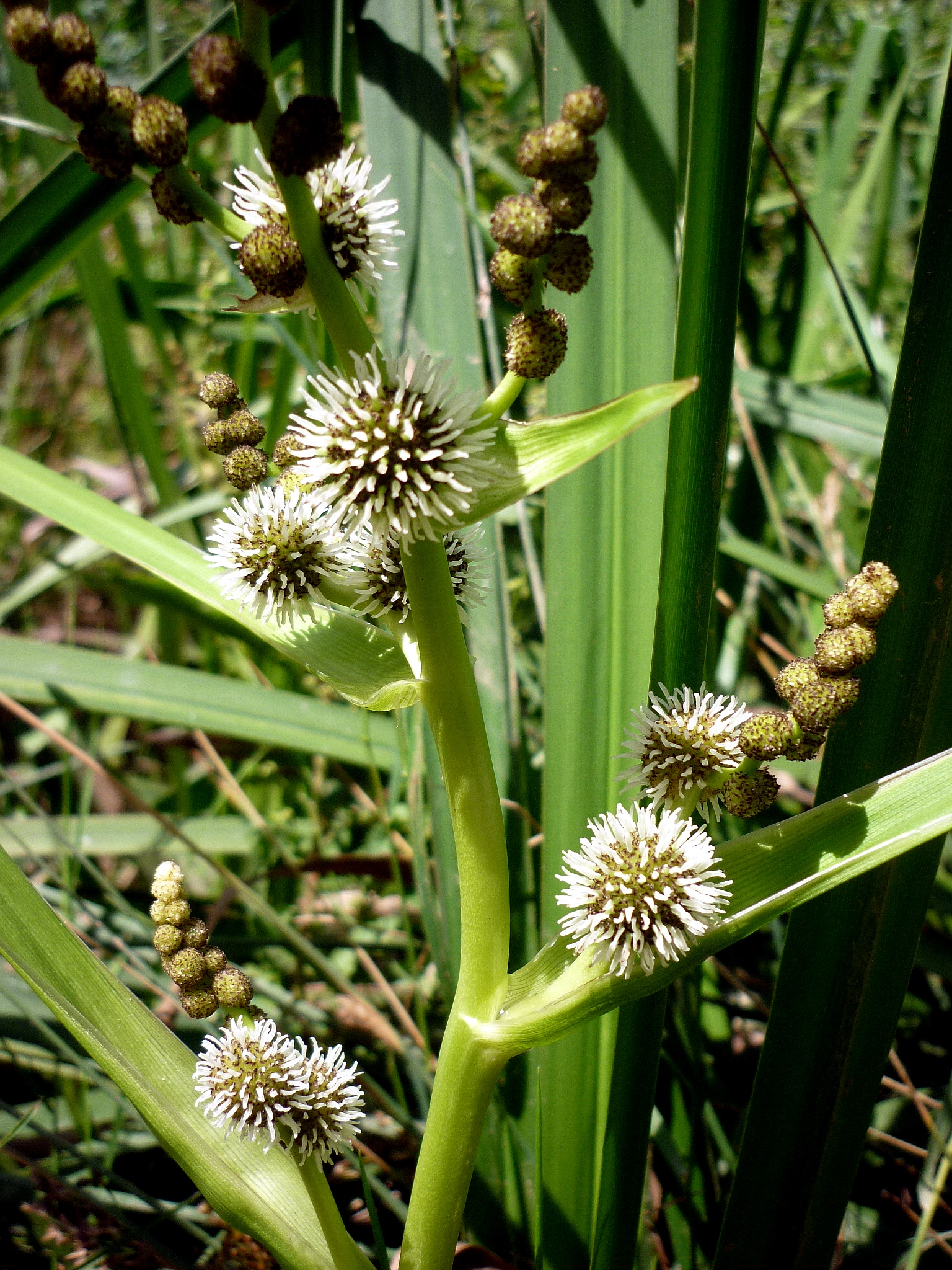 Sparganium erectum. In Torà (Segarra - Catalunya). To 570 m. altitude